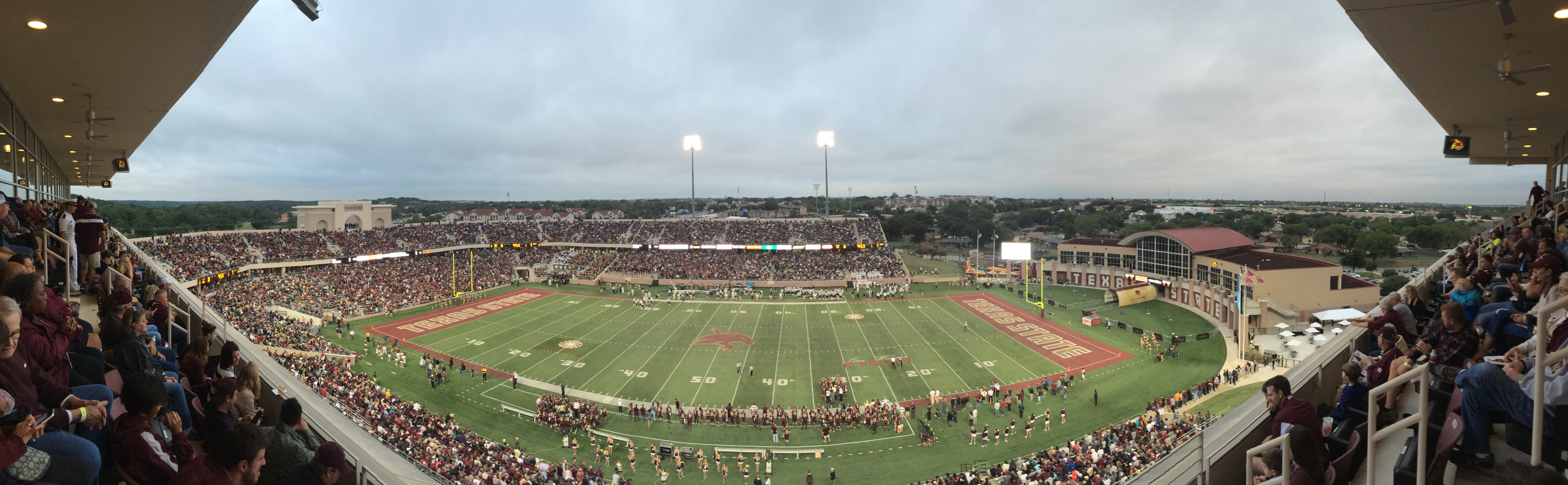 View from the Champions Club during the Texas State v Navy football game held on September 13,2014